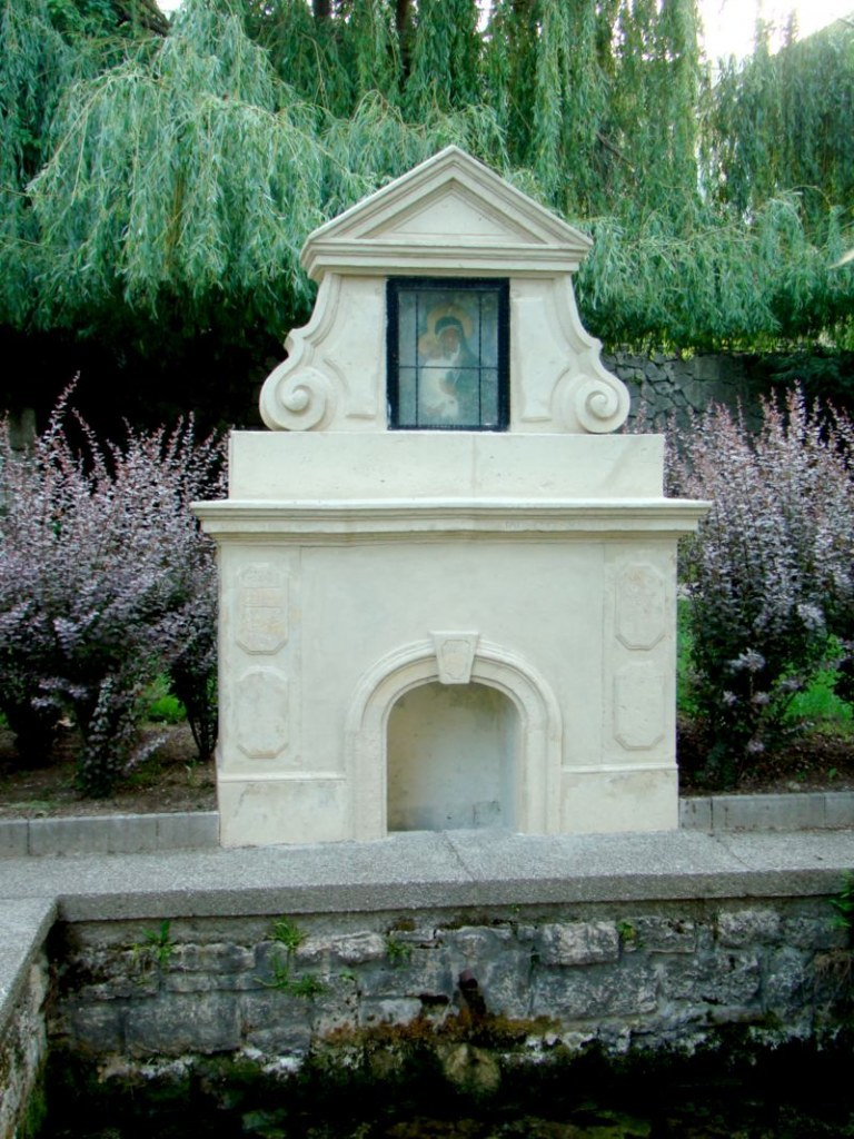 Virgin Mary with baby Jesus at the Holy Well